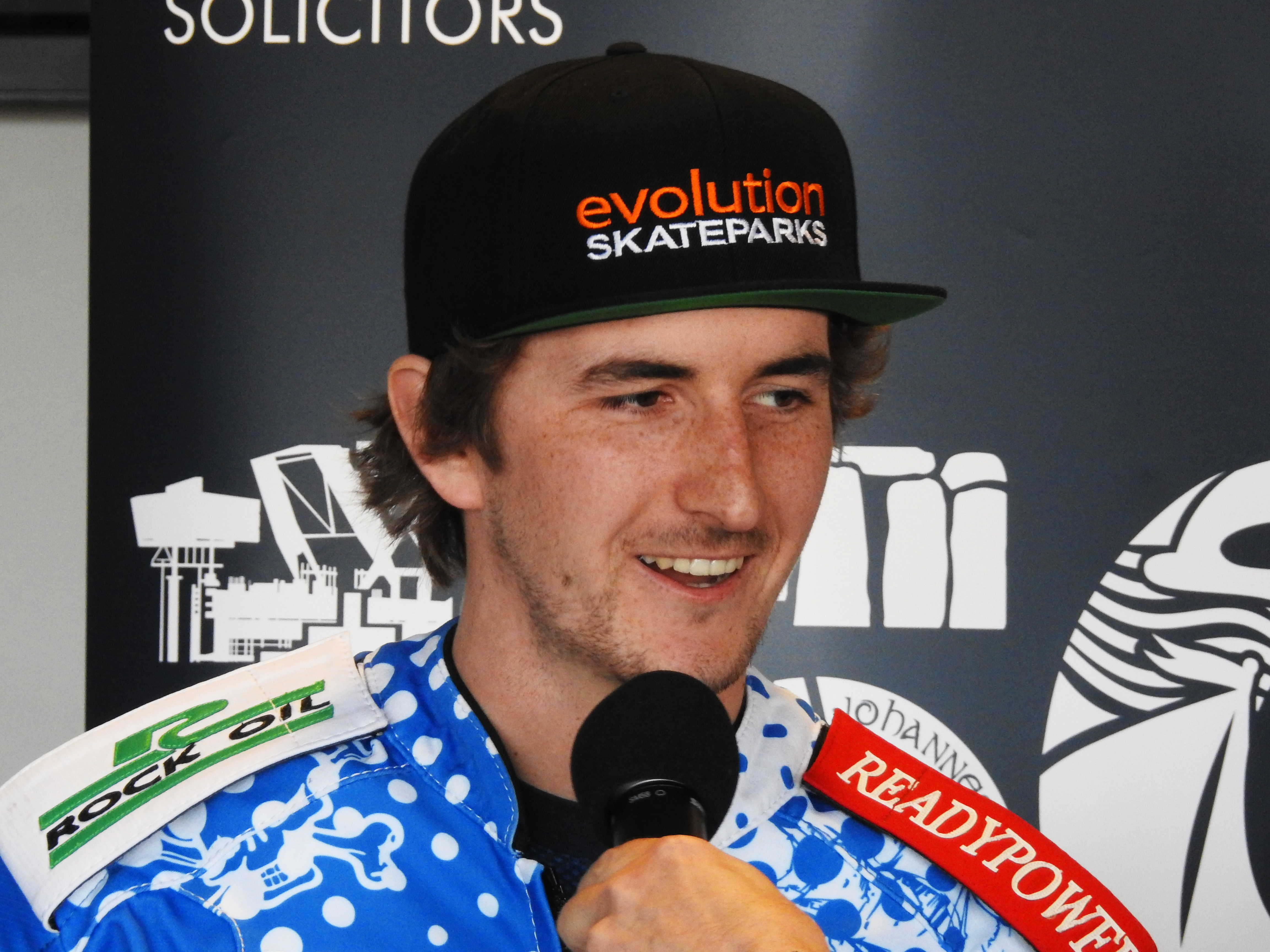 Adam Ellis - speedway rider - Poole Pirate 2016